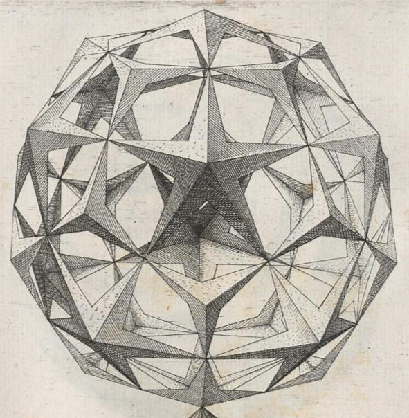 A page from Perspectiva Corporum Regularium (1568) by Wenzel Jamnitzer and Jost Amman Photographed by Saxon State and University Library Dresden Link